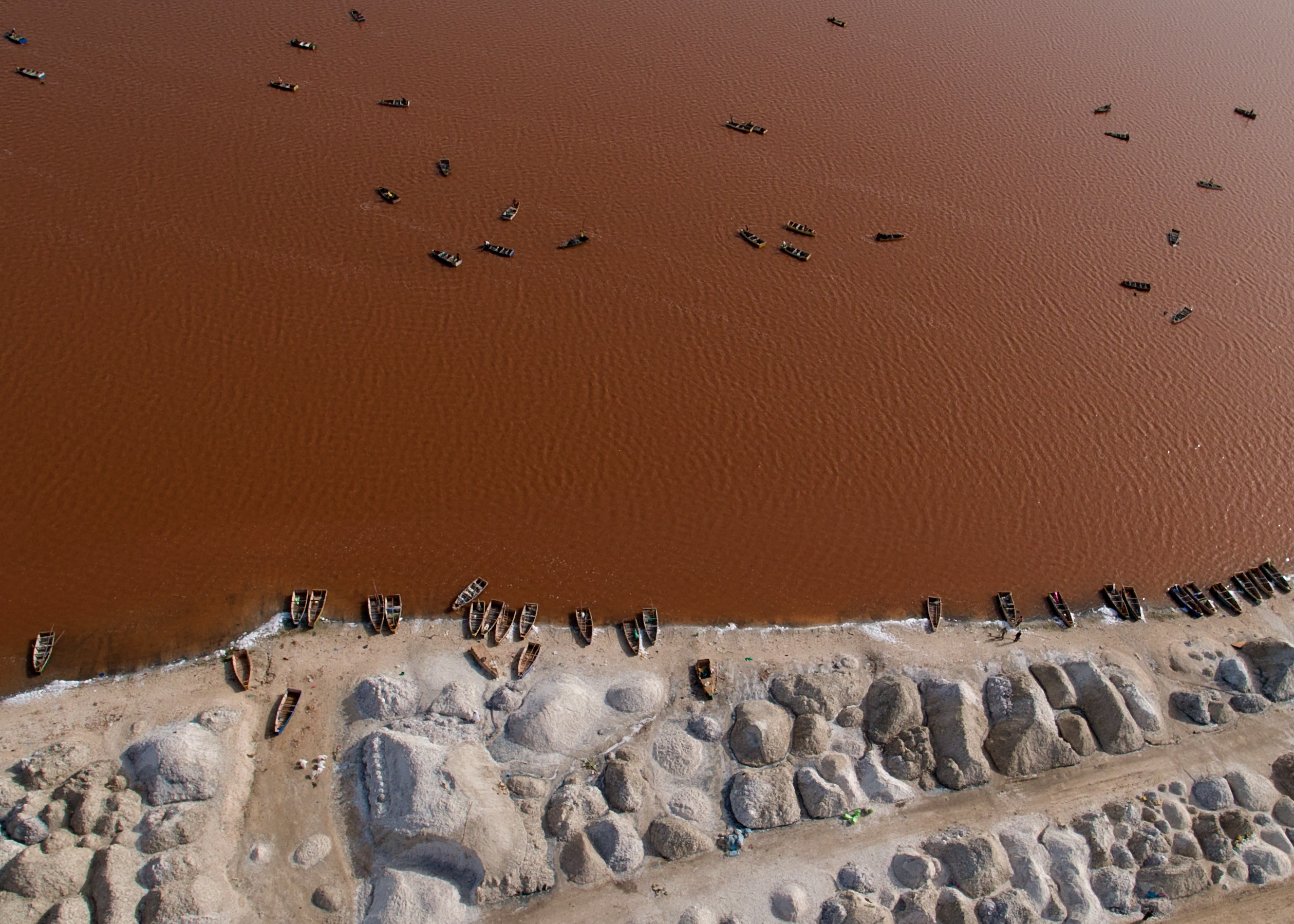 Pink Lake or Lac Rose is... Wiki Link Image was captured by a camera suspended by a kite line. Kite Aerial Photography (KAP) 7' Rokkaku